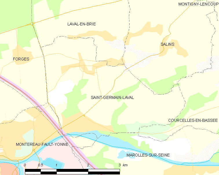 Map of French municipality Saint-Germain-Laval